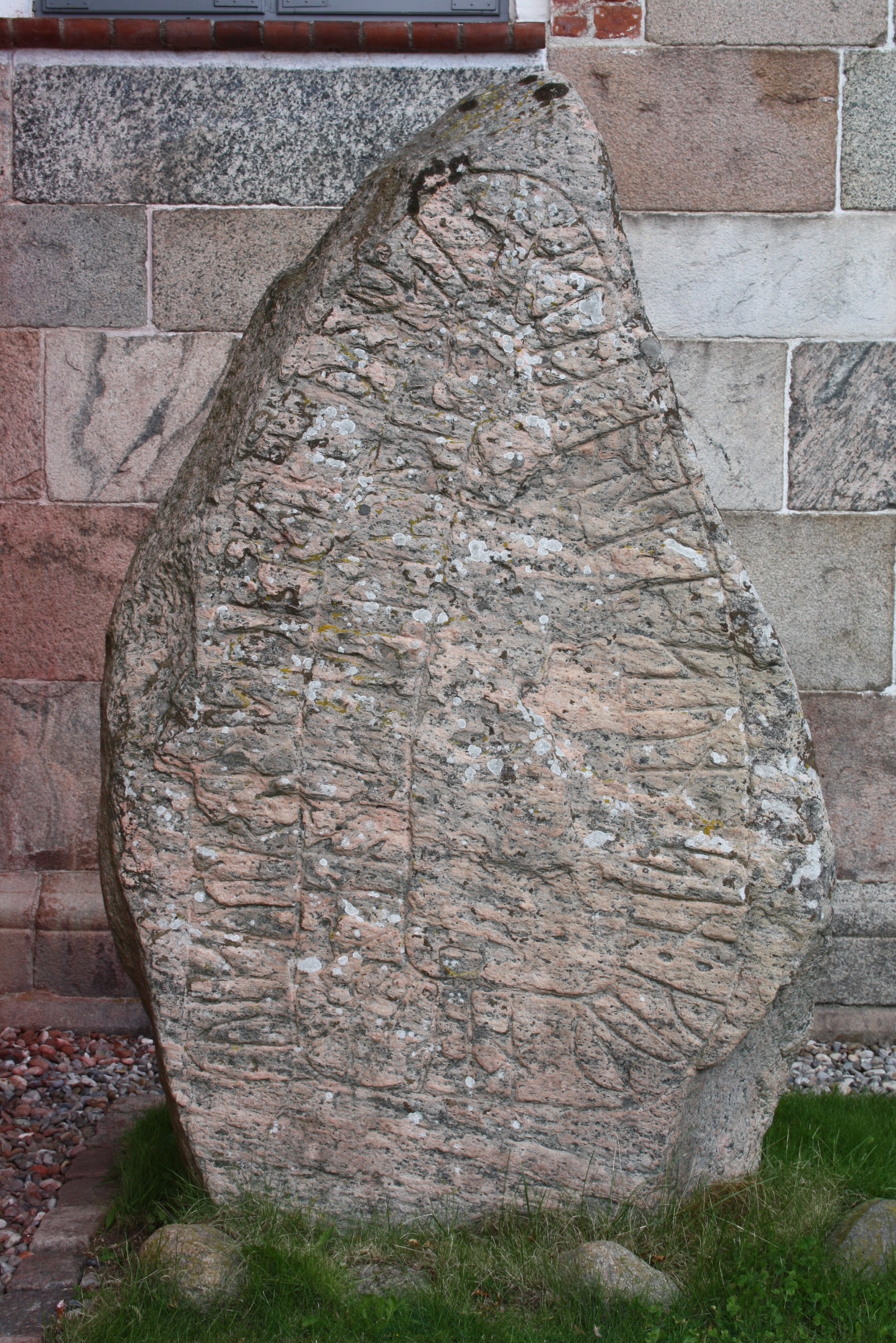 Runestone (Ålum 3) at Ålum Church, Mid-Jutland, Denmark. Reunesten (Ålum 3) ved Ålum kirke øst for Randers.